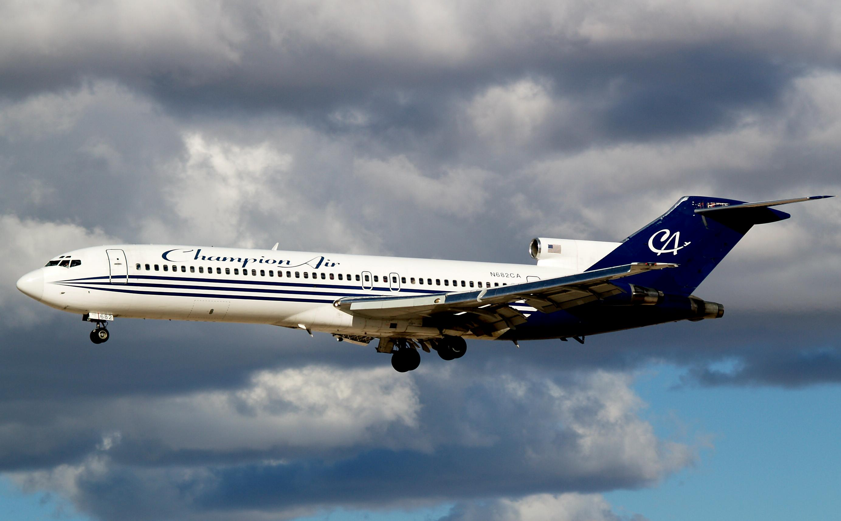 Champion Air Boeing 727-2S7 N682CA